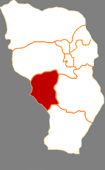 Locator map of Togtoh County in Hohhot City, Inner Mongolia, China